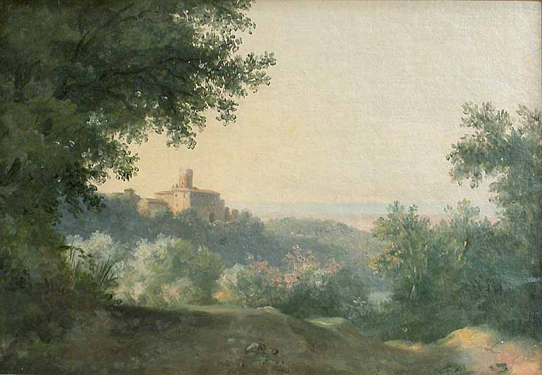 Landscape from the french painter Pierre-Henri de Valenciennes. View of the Palace of Nemi.